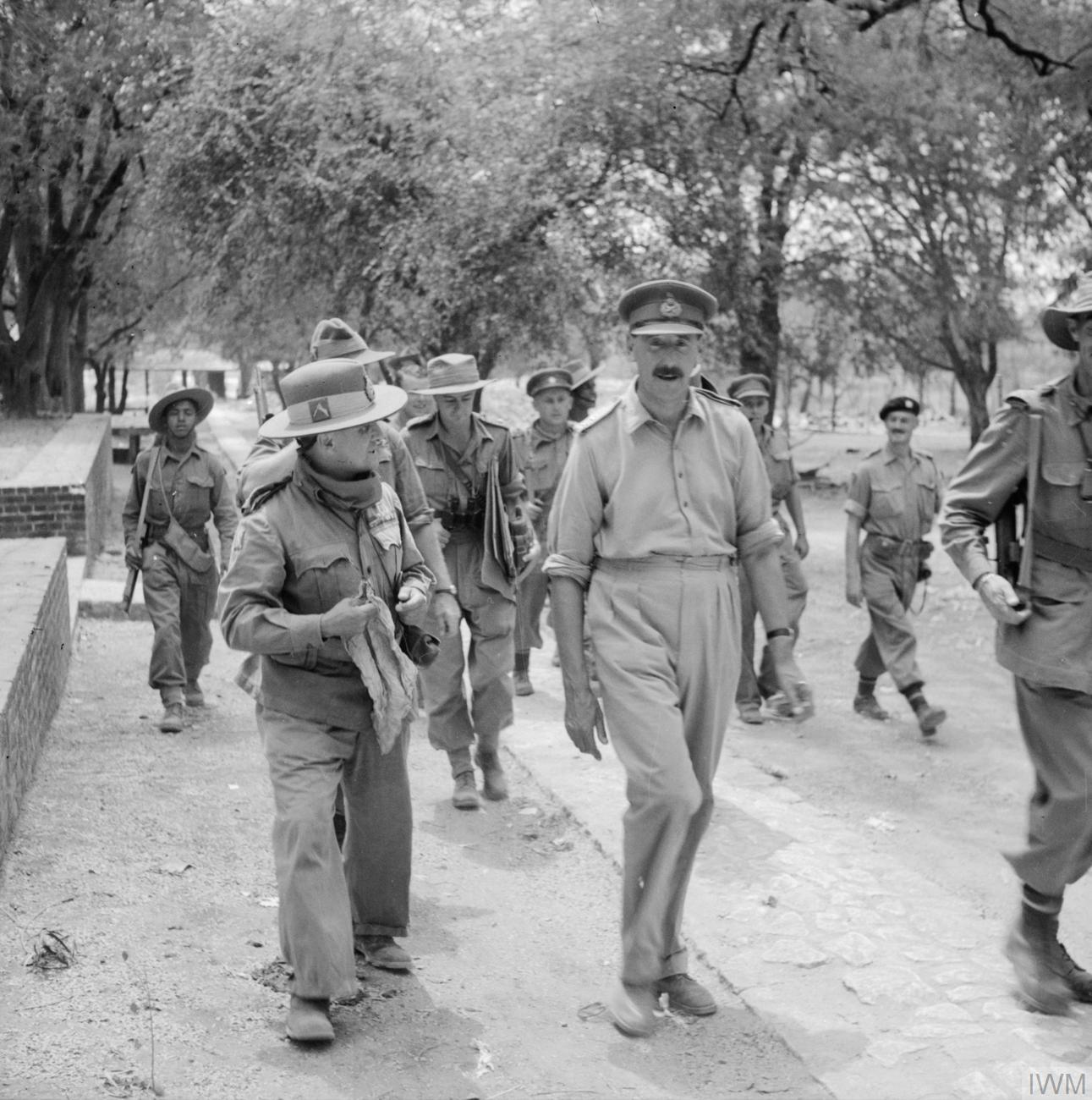 The British Army in Burma 1945 Major General T W Rees, commanding 19th Indian Division, in Mandalay, 19 March 1945.